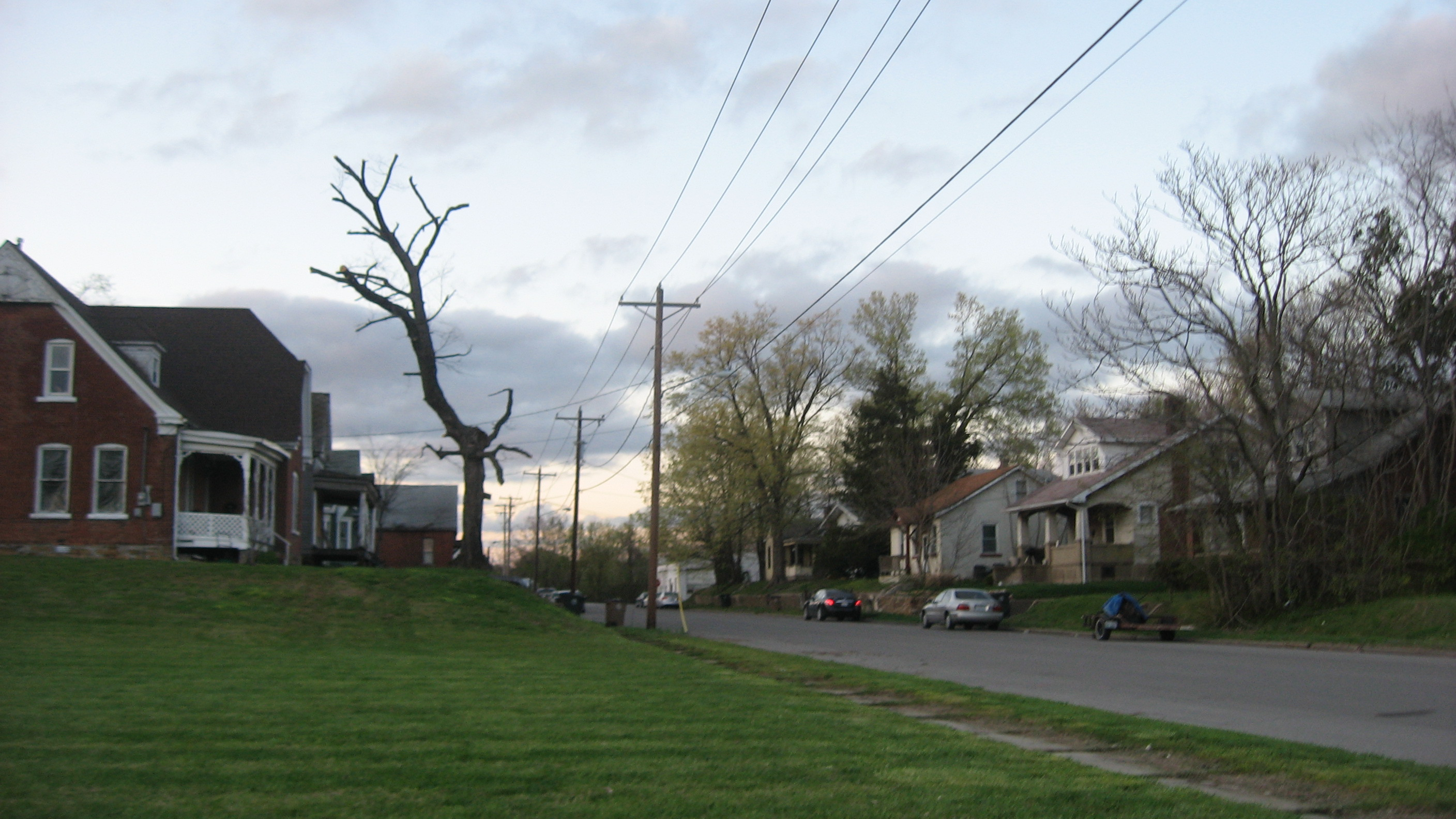 Houses in the 200 block of S. Middle Street in Cape Girardeau, Missouri, United States. This block is part of the South Middle Street Historic District, a historic district that is listed on the National Register of Historic Places.